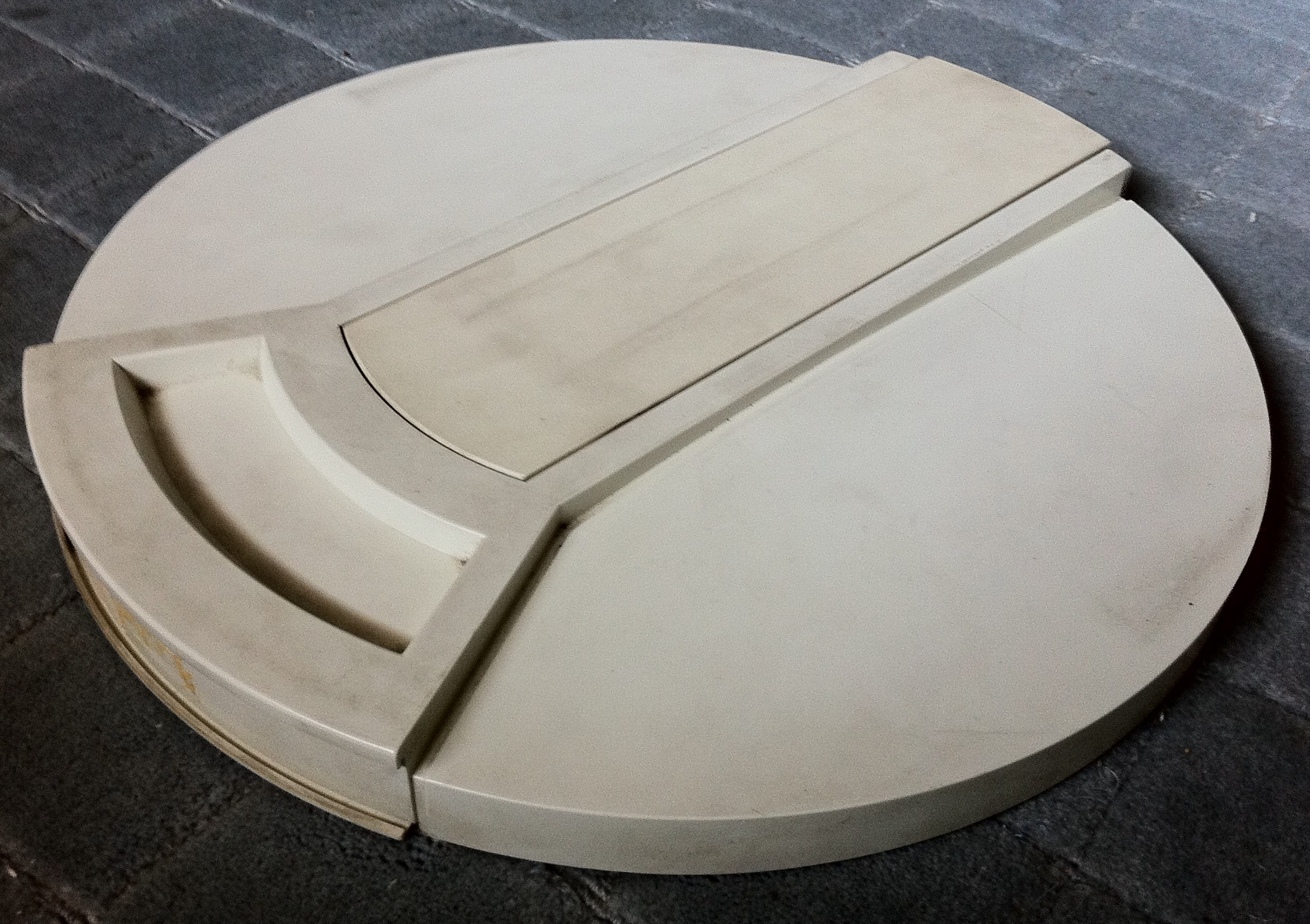 Removable disk cartridge used in an IBM 1130, compatible with IBM 2315 type, made by Nashua Corp.